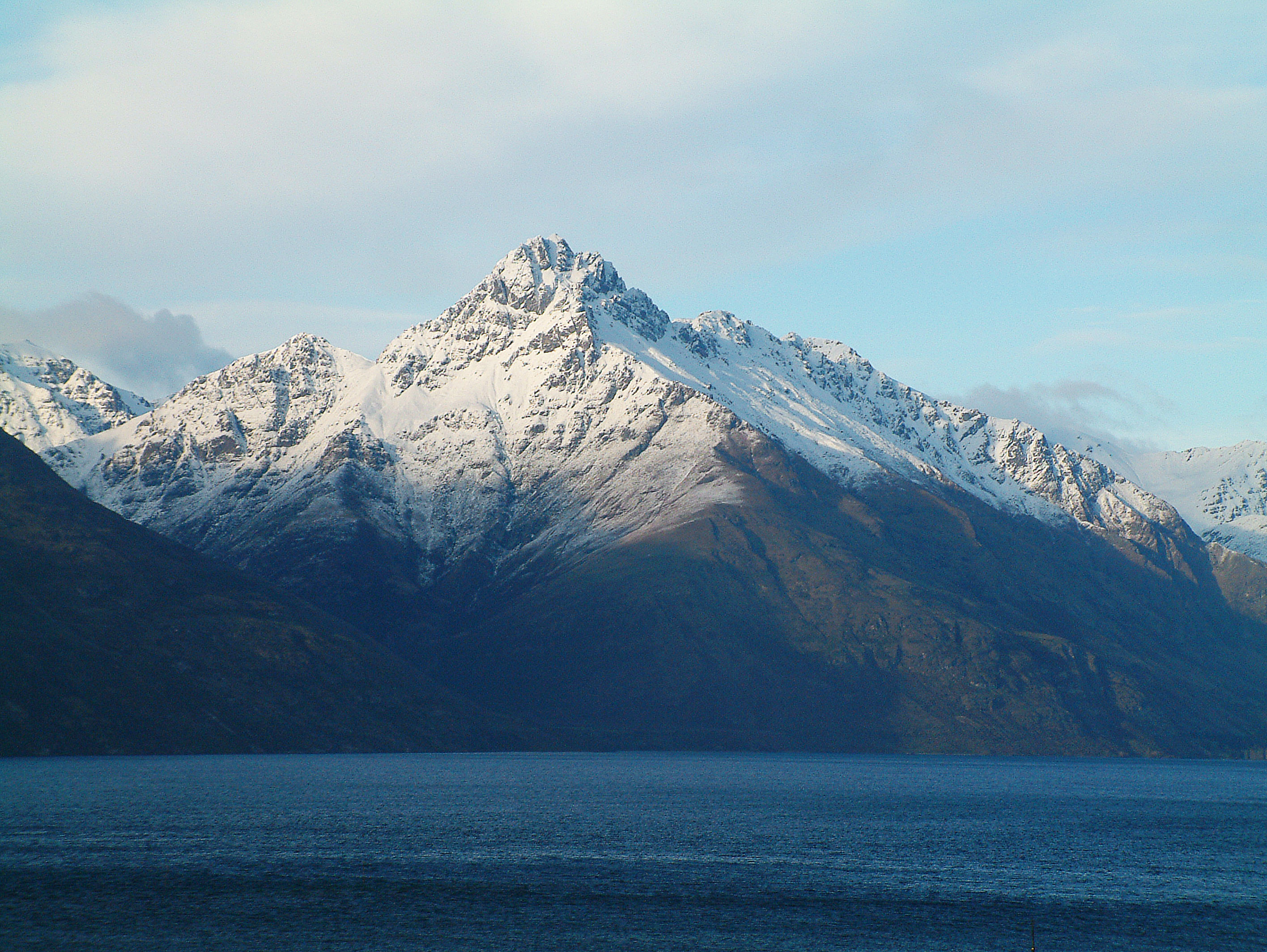 Walter Peak near Queenstown, New Zealand (Lake Wakatipu pictured)